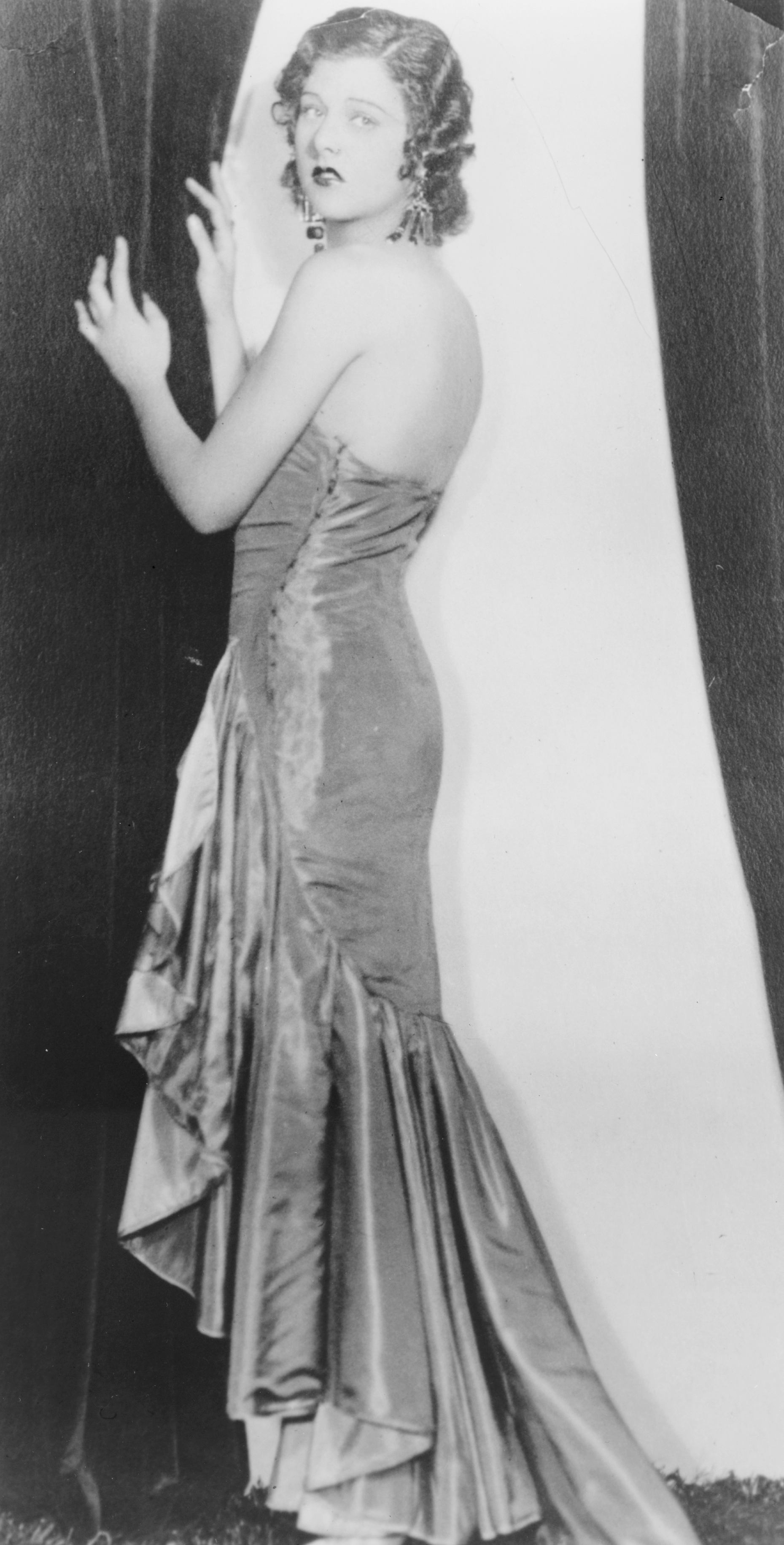 Actress Libby Holman, full length photo-portrait, standing, in strapless dress. Original caption from newspaper: "Former actress questioned in husband's death"